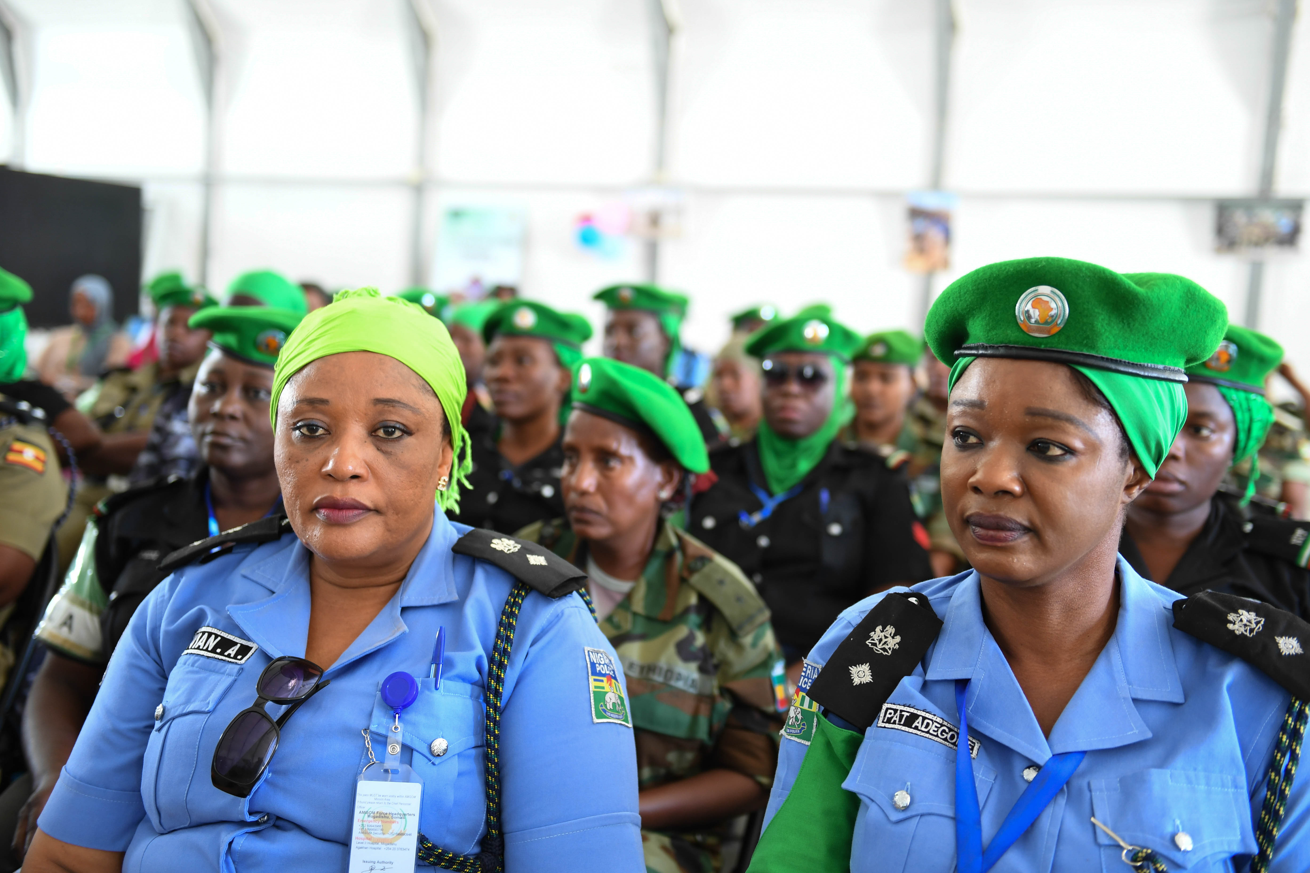 The African Union Mission in Somalia (AMISOM) Female Peackeepers attend a conference in Mogadishu on December 12, 2016. AMISOM Photo / Ilyas Ahmed